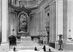 Church of San Francisco el Grande in 19th century. Madrid, Spain